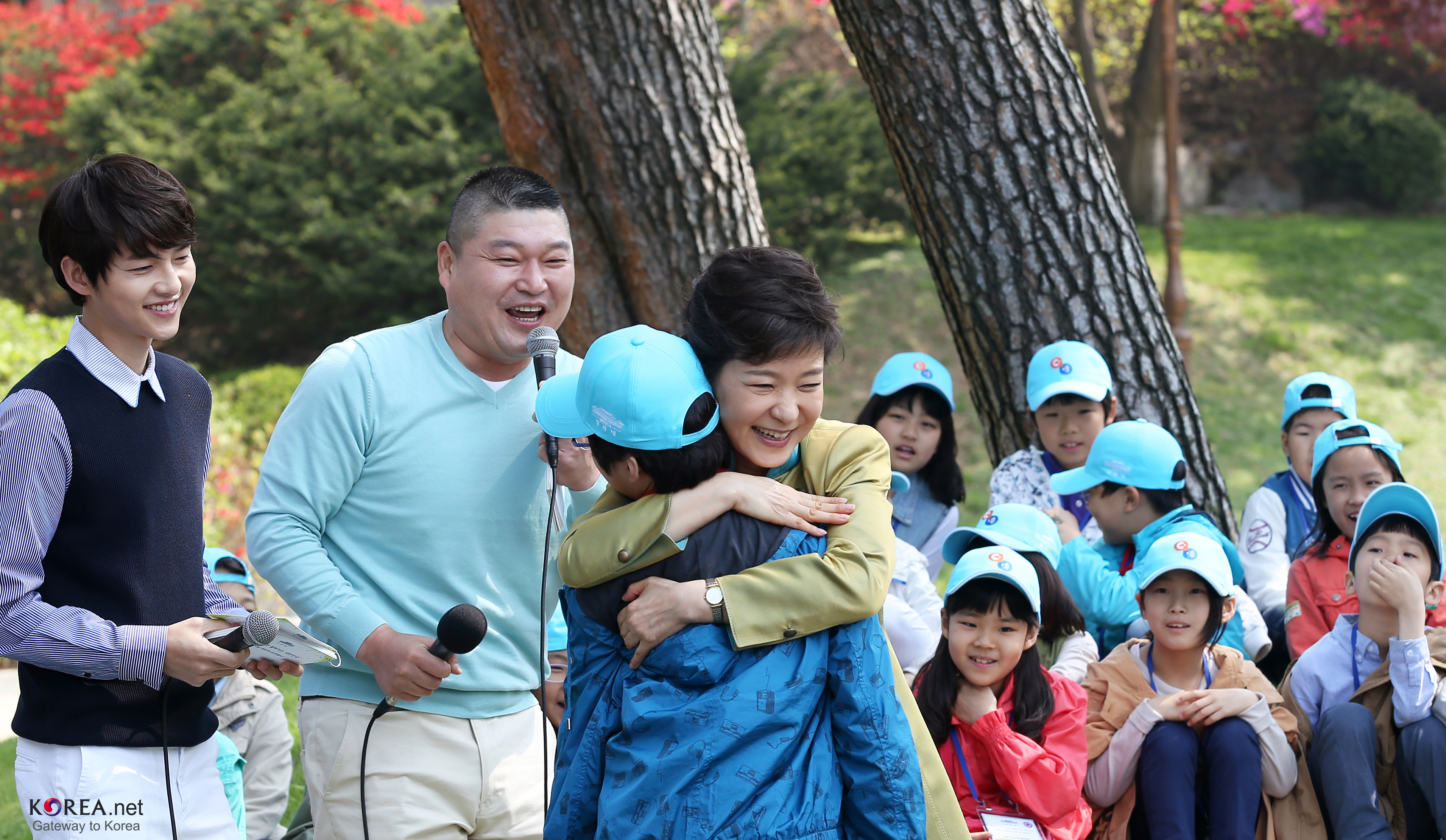 Children’s Day in Cheong Wa Dae. President Park Geun-hye (center) hugs a boy at a meeting with children invited to Cheong Wa Dae to mark Children’s Day on May 5